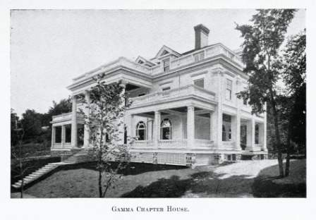 Black and white photo of Gamma of Phi Sigma Kappa at Cornell University, from "The Signet" magazine, May 15, 1910. To be used on the Phi Sigma Kappa page Other information From the archives of founding Minnesota brother Edgar B. Rehnke, passed along to his younger brother Roswell Rehnke, and then to chapter historian Thomas C. Jackson.